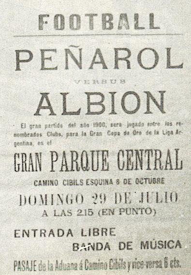 Poster to promote the match between Uruguayan football teams, Peñarol (CURCC) and Albion.